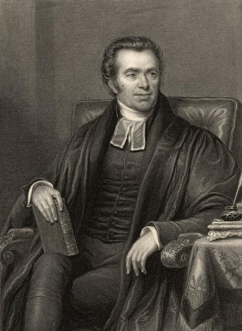 A portrait from the Welsh Portrait Collection at the National Library of Wales. Depicted person: George Collison – British theologian